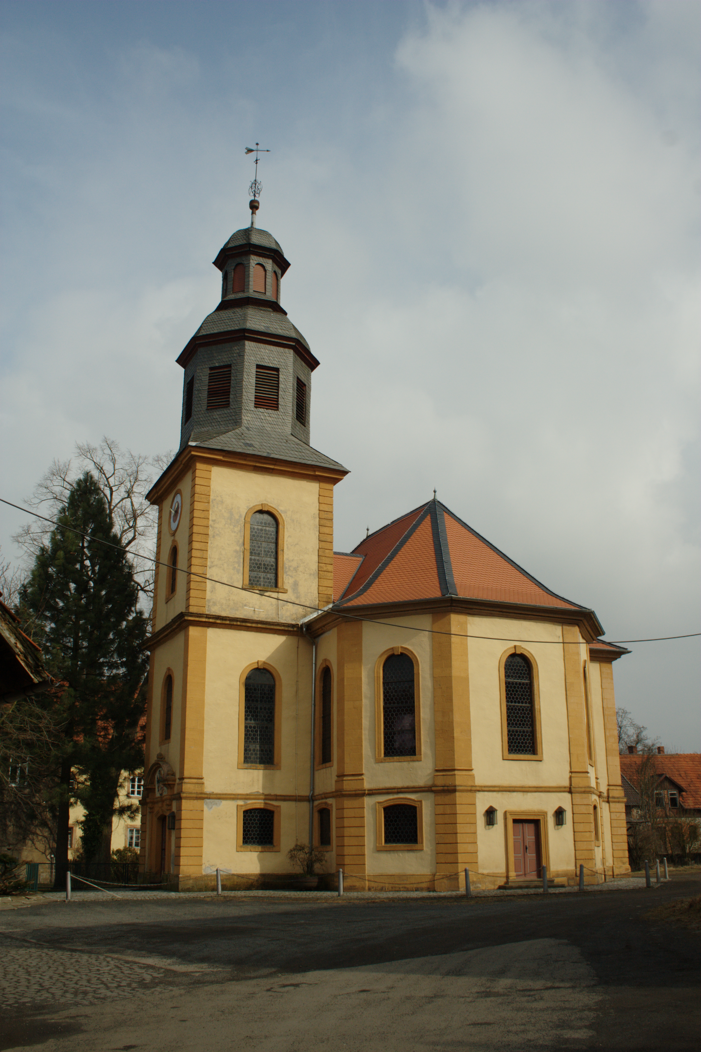 Cultural heritage monument in Germany Hesse Alsfeld - Address: Altenburg AmSchlossberg 34 Kirche